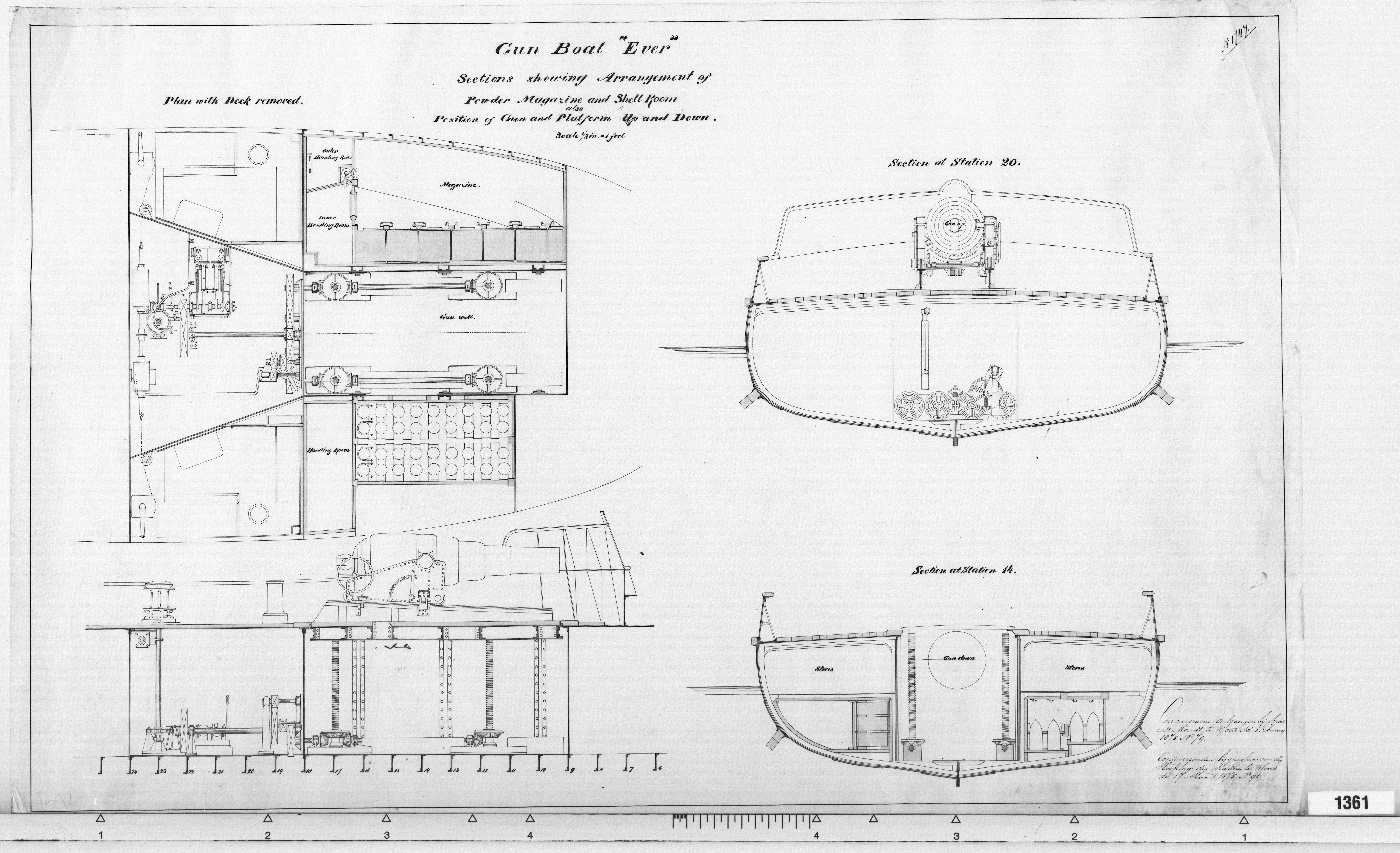 Design drawing of HNLMS Ever (1873), showing the hydraulic gun mount. The hydraulic mechanism allowed the crew to fix the gun in a lower position, increasing stability in rough weather. The same construction was widely used in English gunboats of the same type.